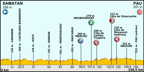 Profil of the 15th stage of the Tour de France 2012